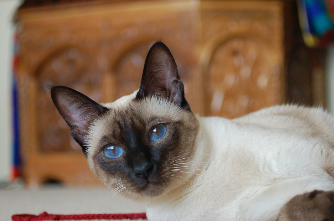 Amy Adolph